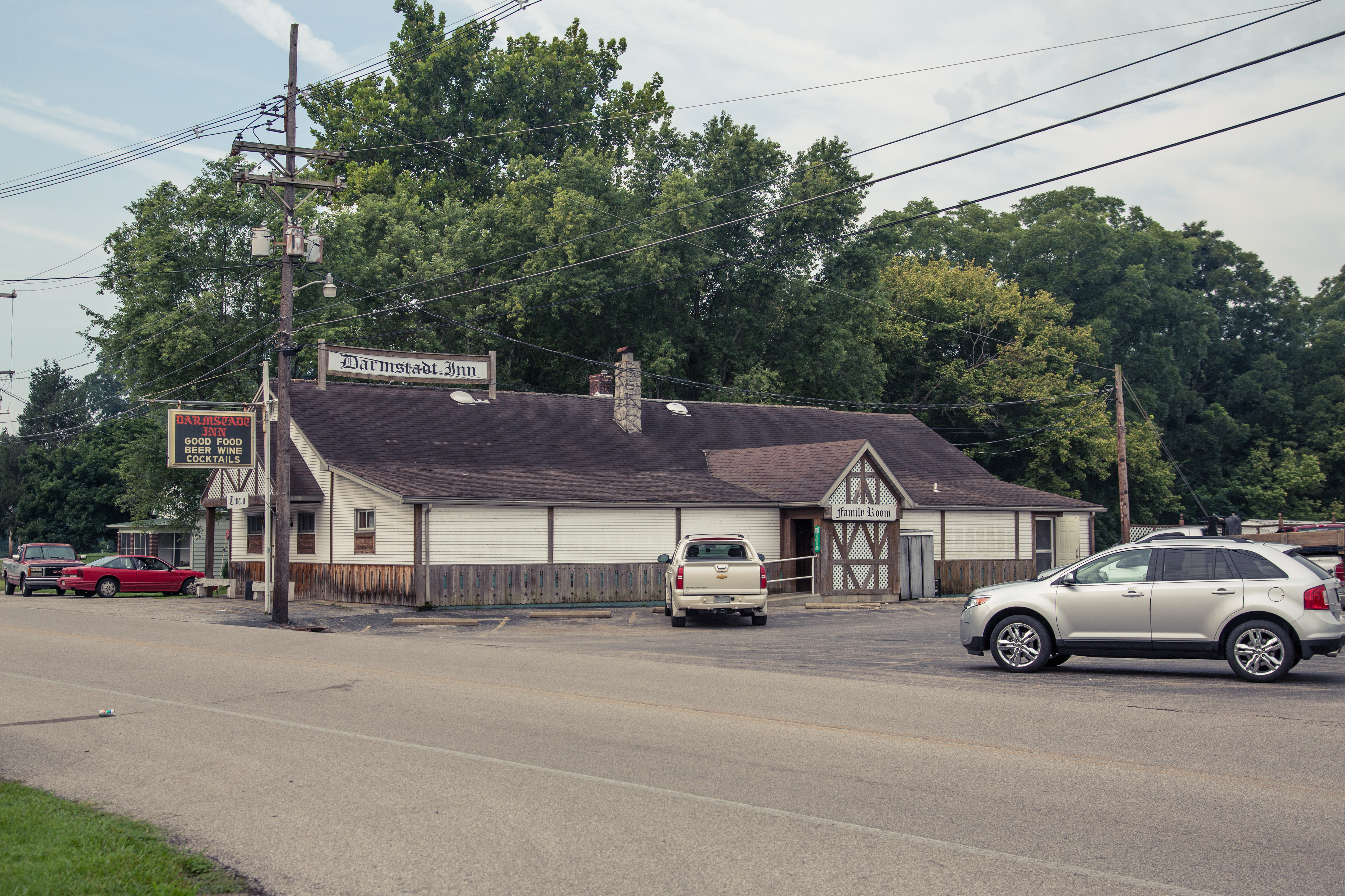 Photo from Small Town Indiana photo survey.